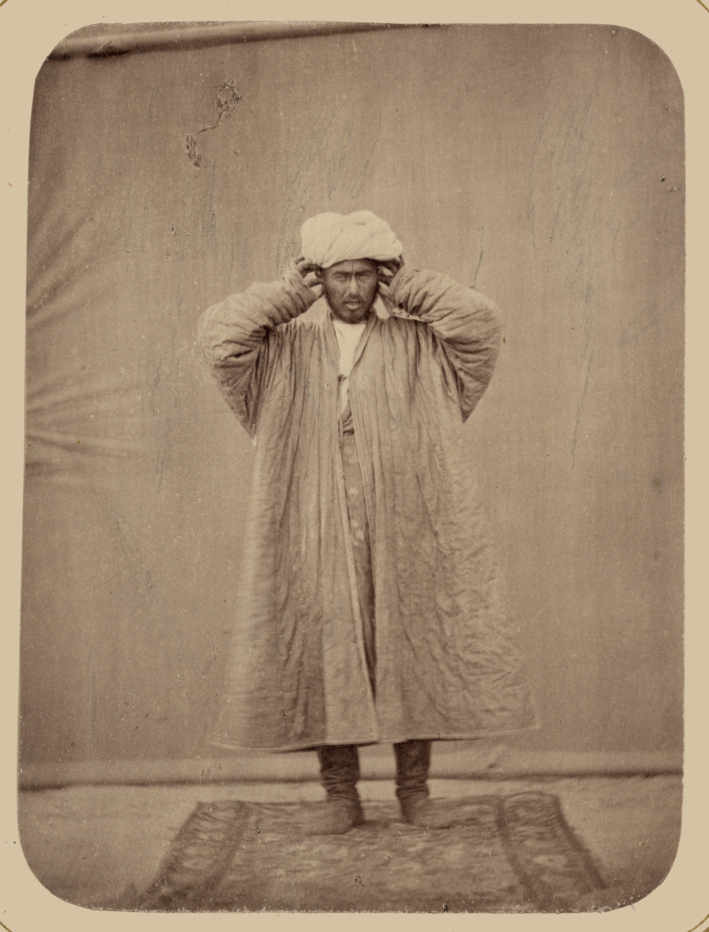 This photograph is from the ethnographical part of Turkestan Album, a comprehensive visual survey of Central Asia undertaken after imperial Russia assumed control of the region in the 1860s. Commissioned by General Konstantin Petrovich von Kaufman (1818–82), the first governor-general of Russian Turkestan, the album is in four parts spanning six volumes: “Archaeological Part” (two volumes); “Ethnographic Part” (two volumes); “Trades Part” (one volume); and “Historical Part” (one volume). The principal compiler was Russian Orientalist Aleksandr L. Kun, who was assisted by Nikolai V. Bogaevskii. The album contains some 1,200 photographs, along with architectural plans, watercolor drawings, and maps. The “Ethnographic Part” includes 491 individual photographs on 163 plates. The photographs show individuals representing the different peoples of the region (Plates 1–33); daily life and rituals (Plates 34–91); and views of villages and cities, street vendors, and commercial activities (Plates 92–163). Ethnographic photographs; Muslims; Photographic surveys; Prayer; Rites and ceremonies; Spiritual life; Tajiks